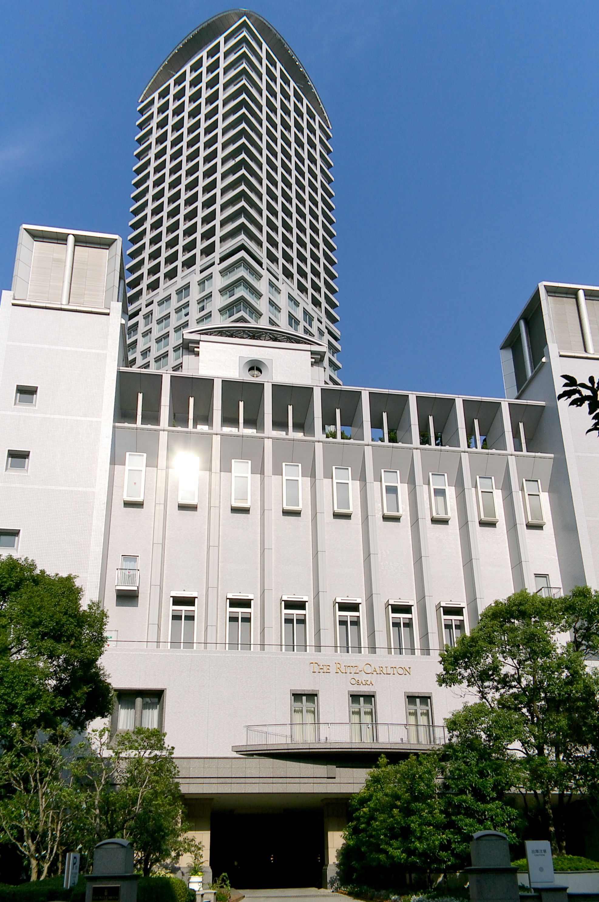 Photograph of the main entrance of the Ritz-Carlton, Osaka in Umeda, Kita-ku, Osaka, Osaka Prefecture, Japan.